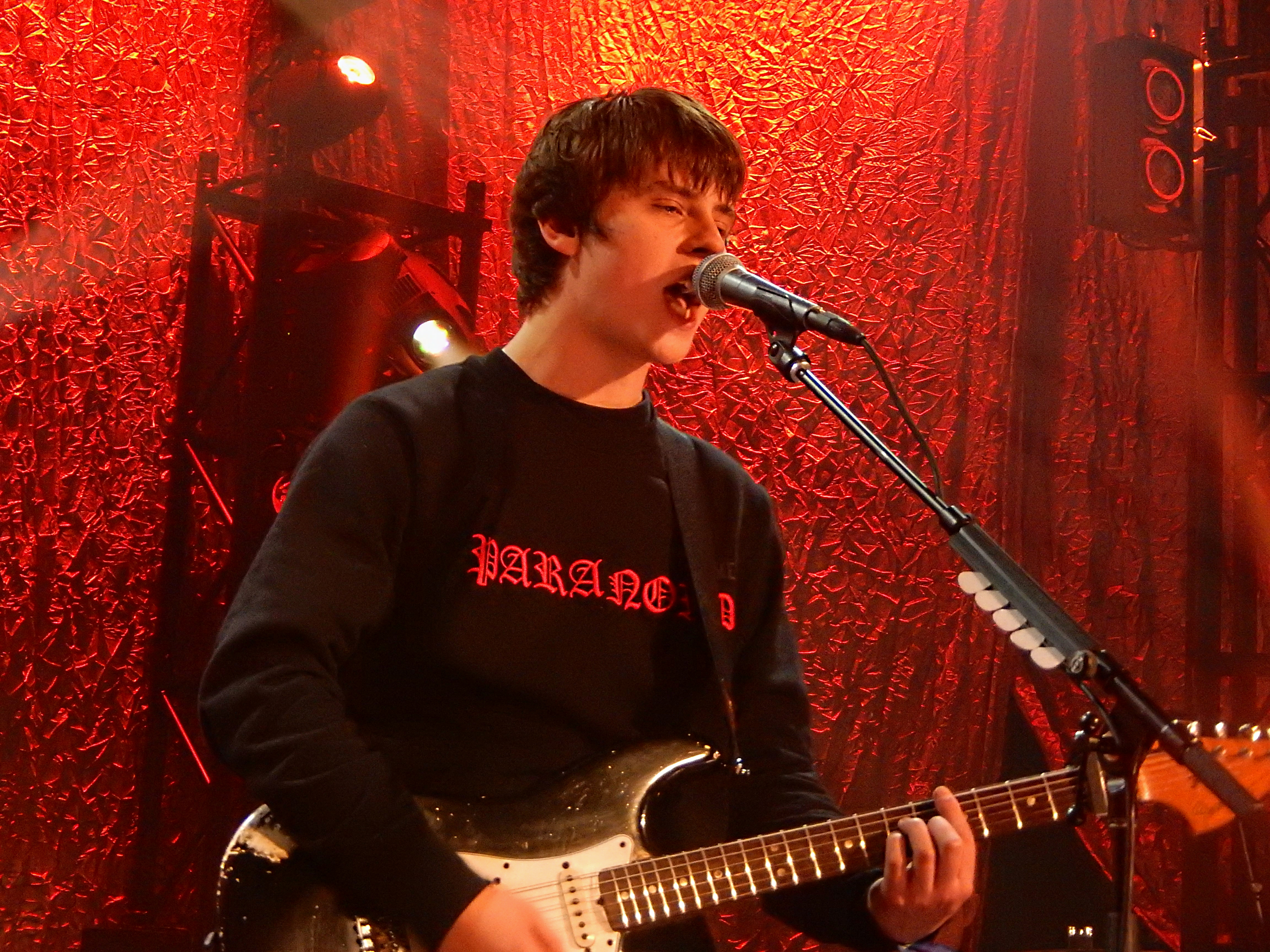 Jake Bugg, Wagner Hall, Brighton (Great Escape 2016)